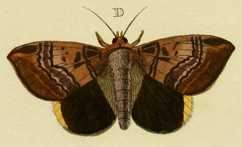 Acanthodelta ezea moth (Cramer, 1779) Syn.: (Phalaena Ezea)